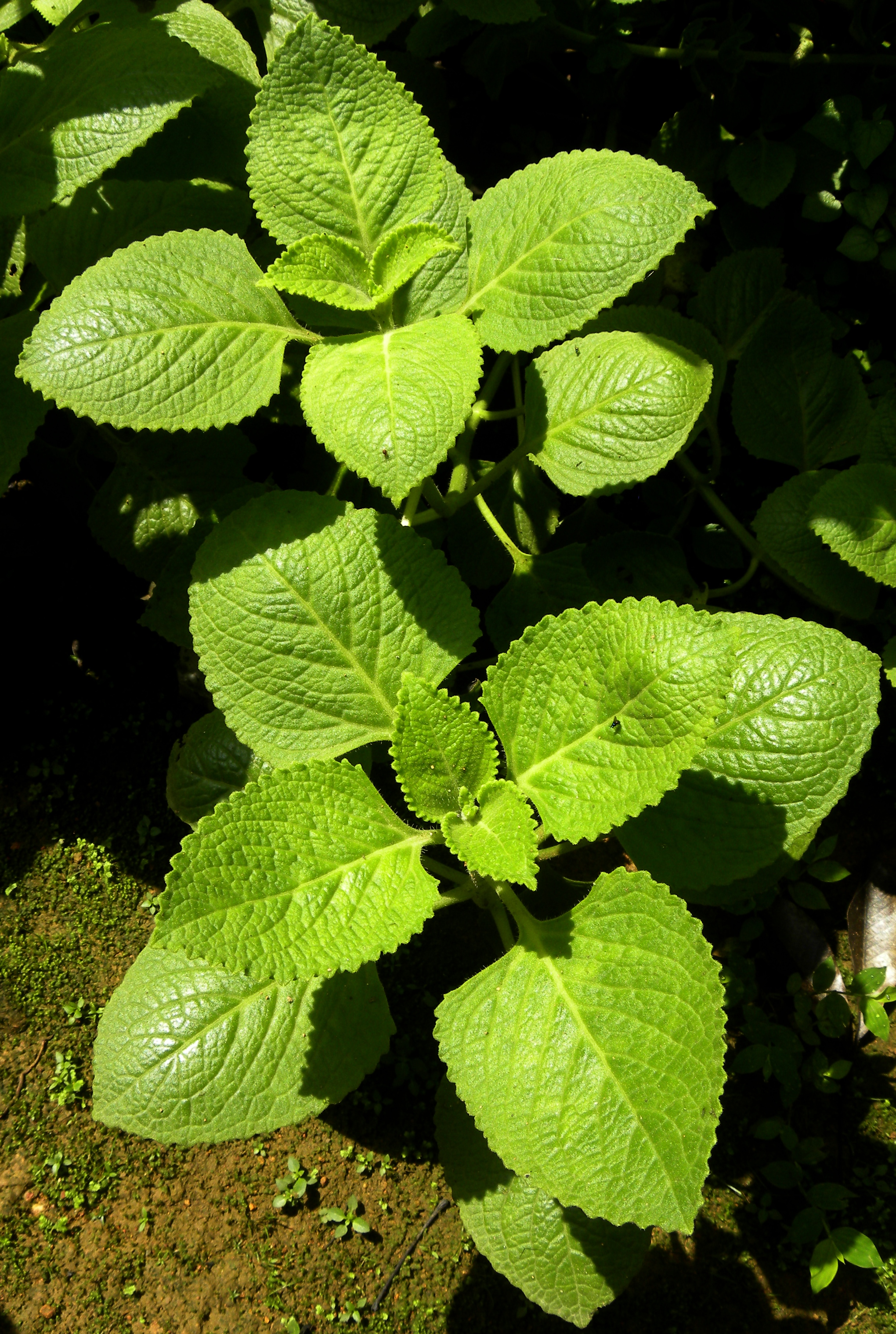 Coleus aromaticus from Kerala, India